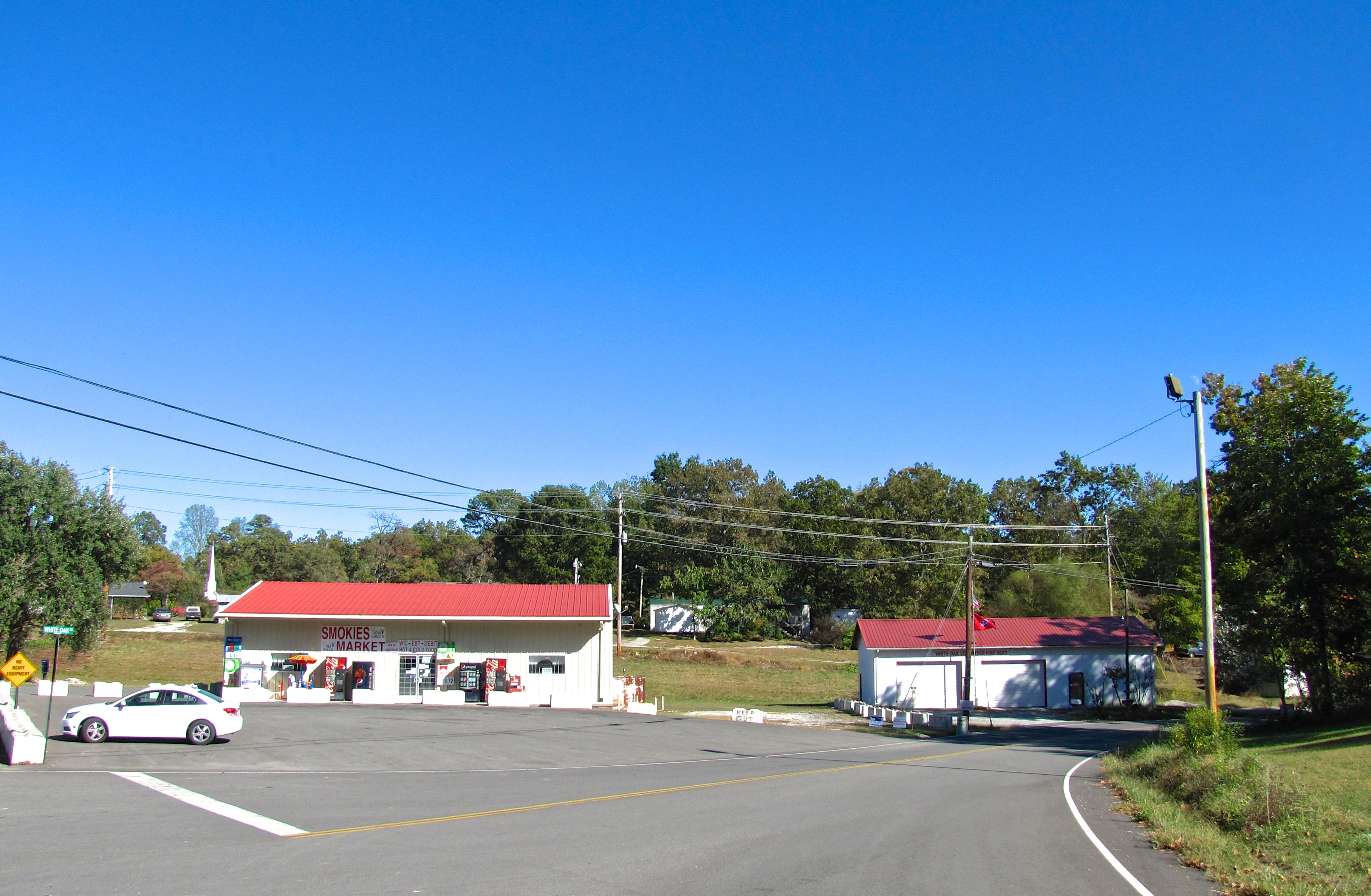 Smokies Market and White Oak Volunteer Fire Department in White Oak, Tennessee, United States.